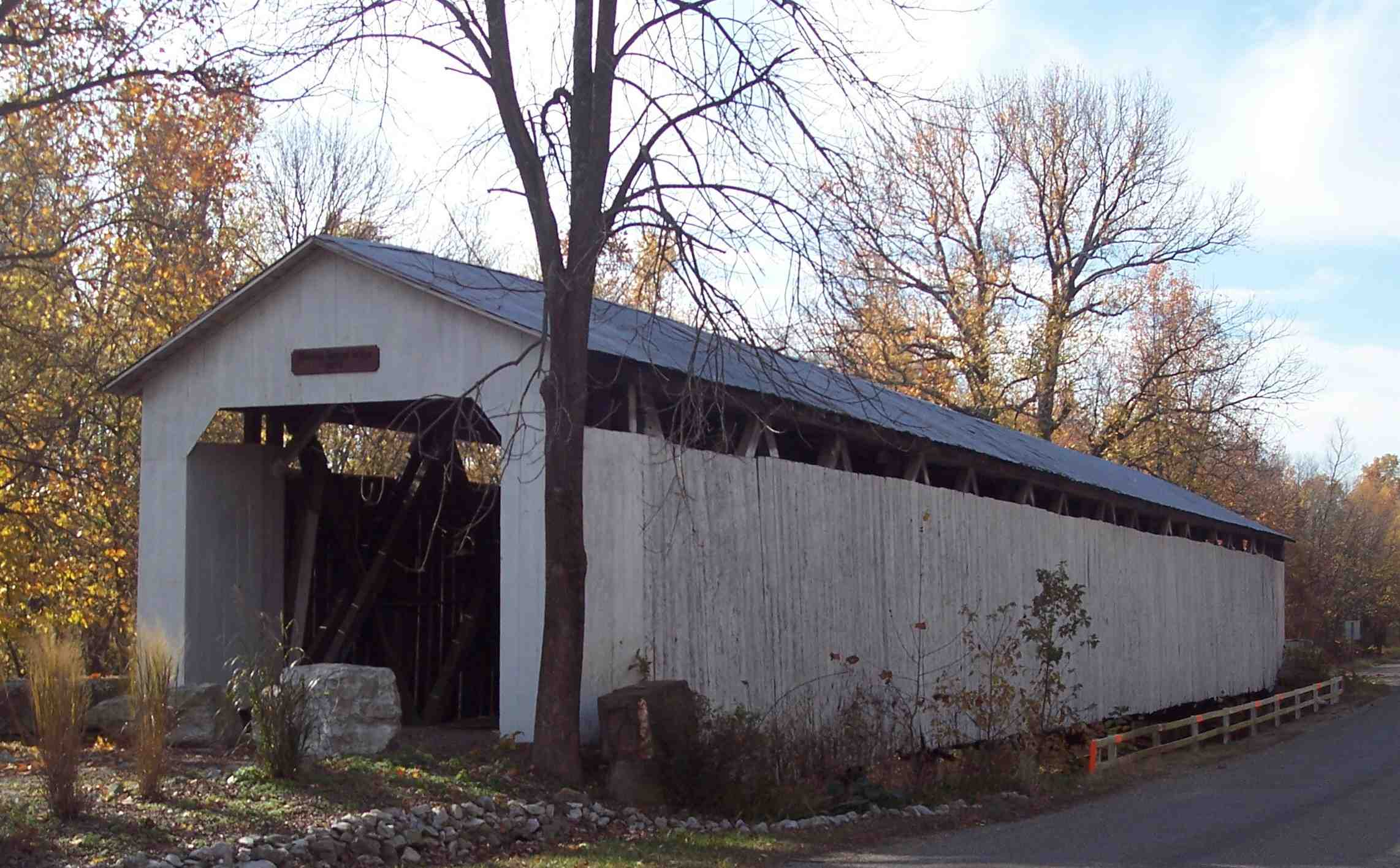 Wheeling Covered Bridge in Gibson County, Indiana. Sign reads, "Wheeling Covered Bridge 1877". Smith truss bridge, type 3, span 163 ft, width 14'6" ft, 14 pannels.